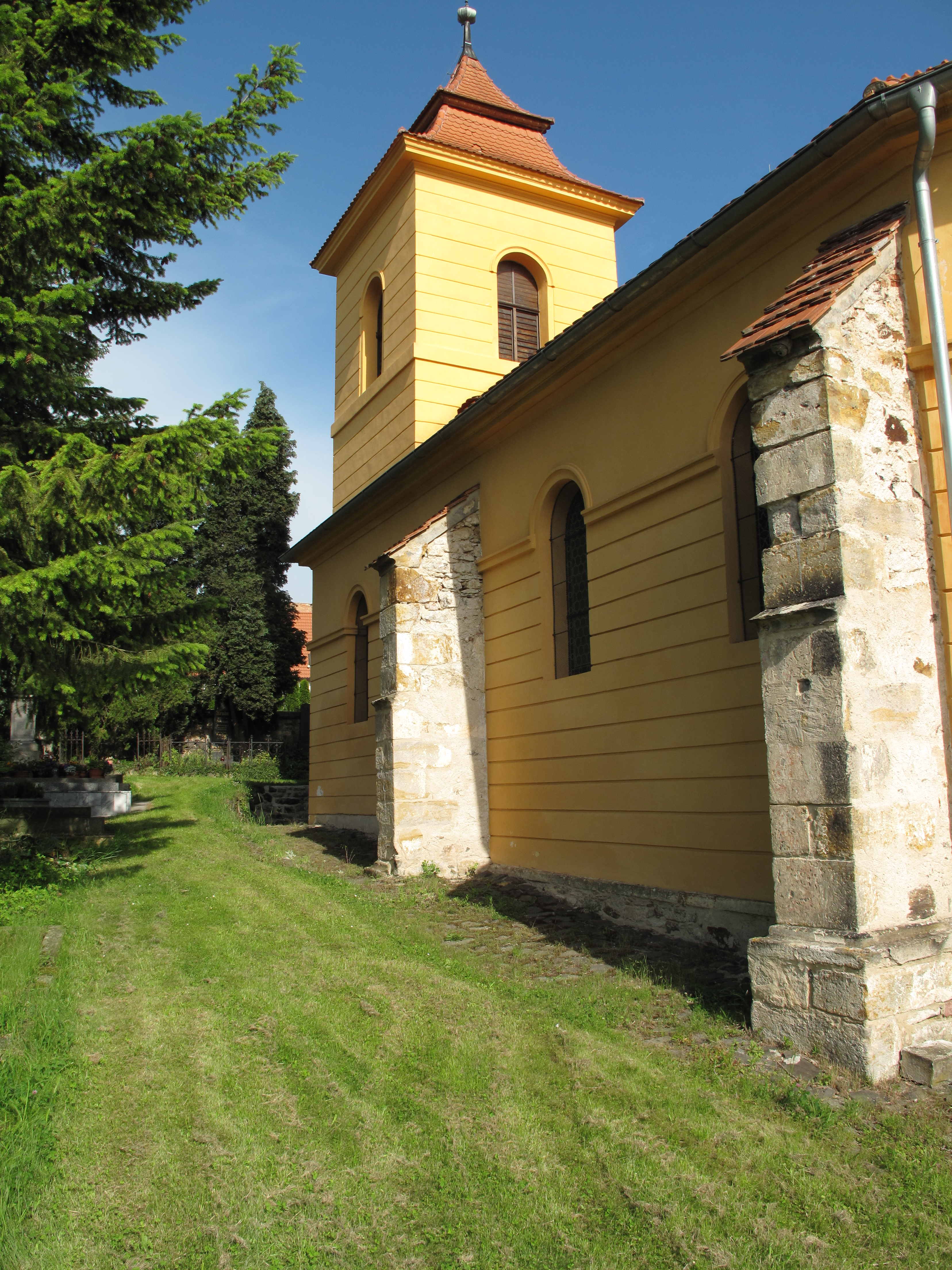 Church of Saint Matthew in Prackovice nad Labem village, Litoměřice District, Czech Republic.